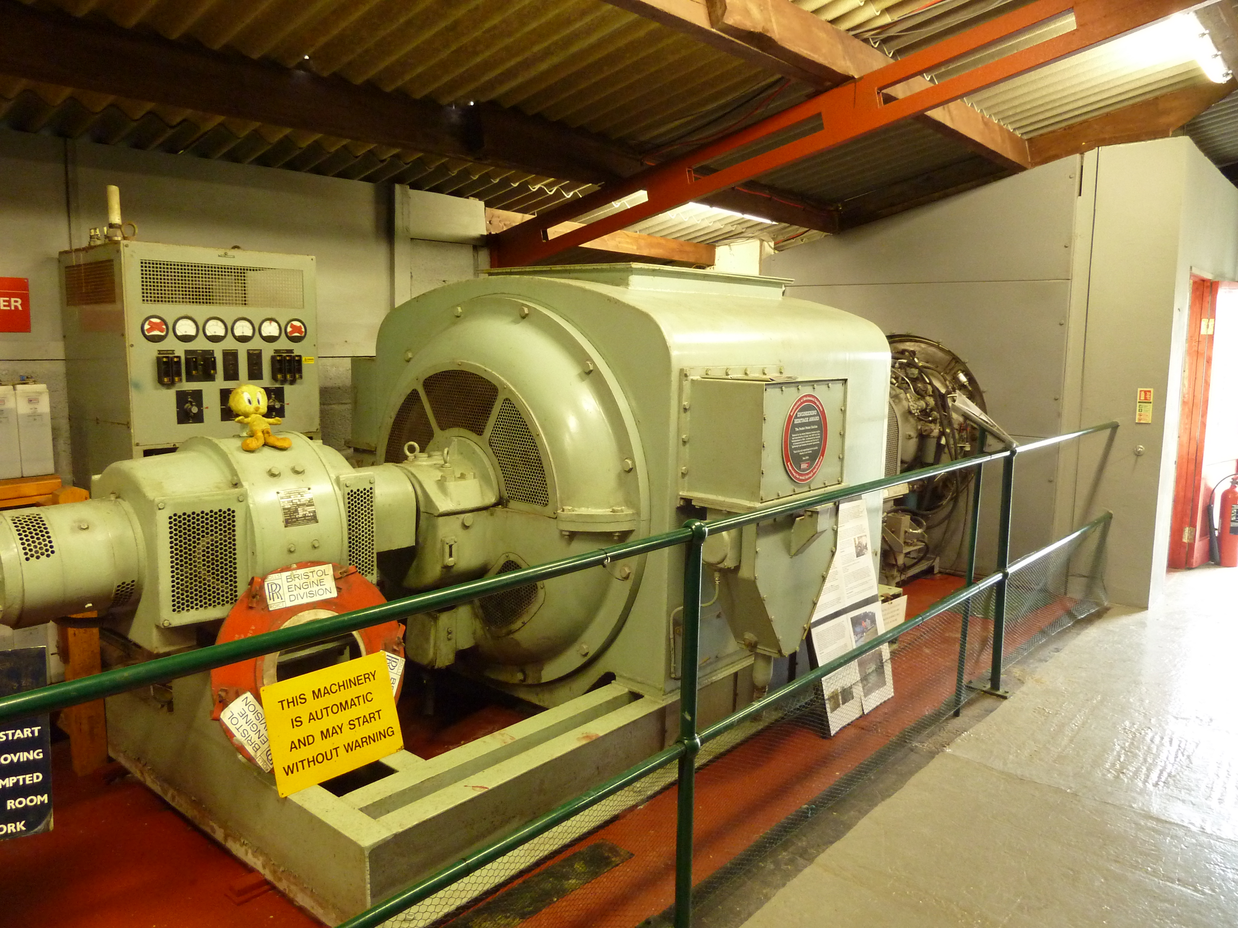 Bristol-Siddeley Proteus, driving a generator set as one of the "Pocket Power Stations". Now on display at the Internal Fire museum.